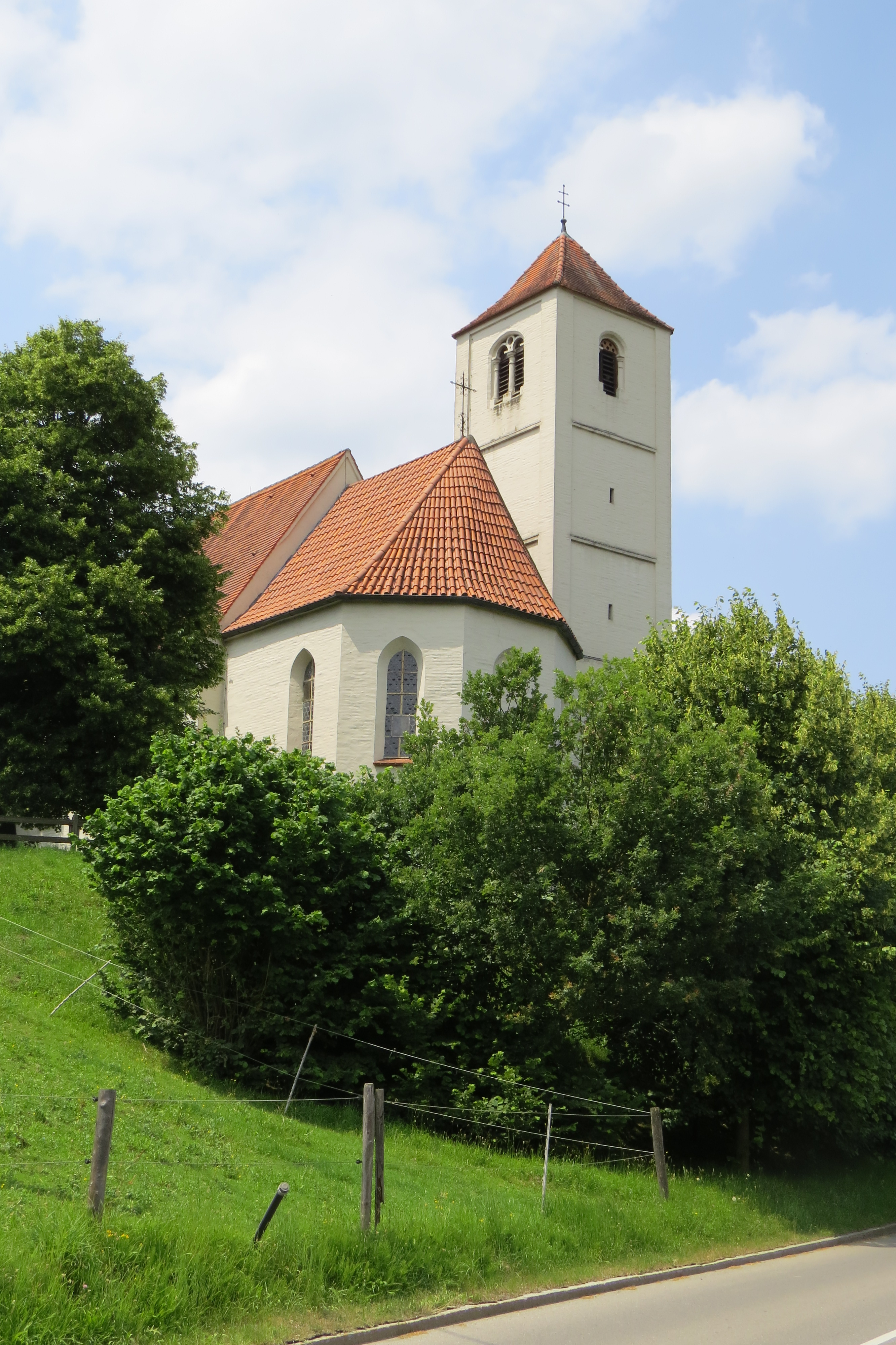 Kirche in Münster, Mickhausen